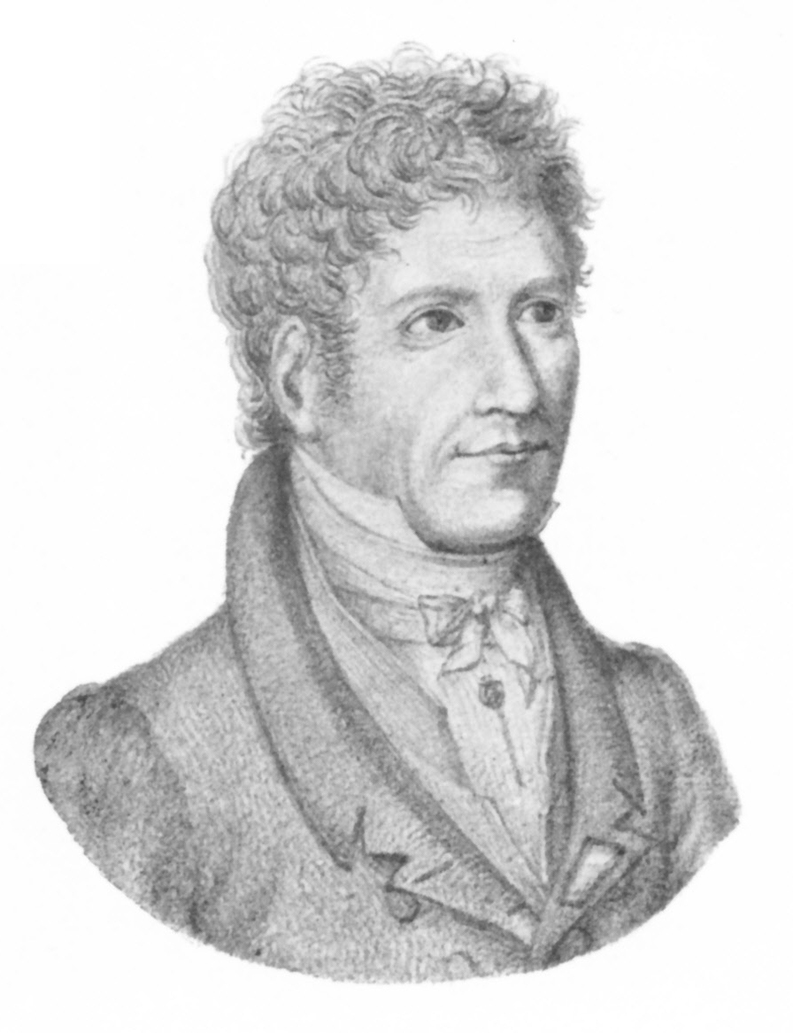 Wilhelm Marstrand made this drawing of his father, Nicolai Jacob Marstrand, in 1825.